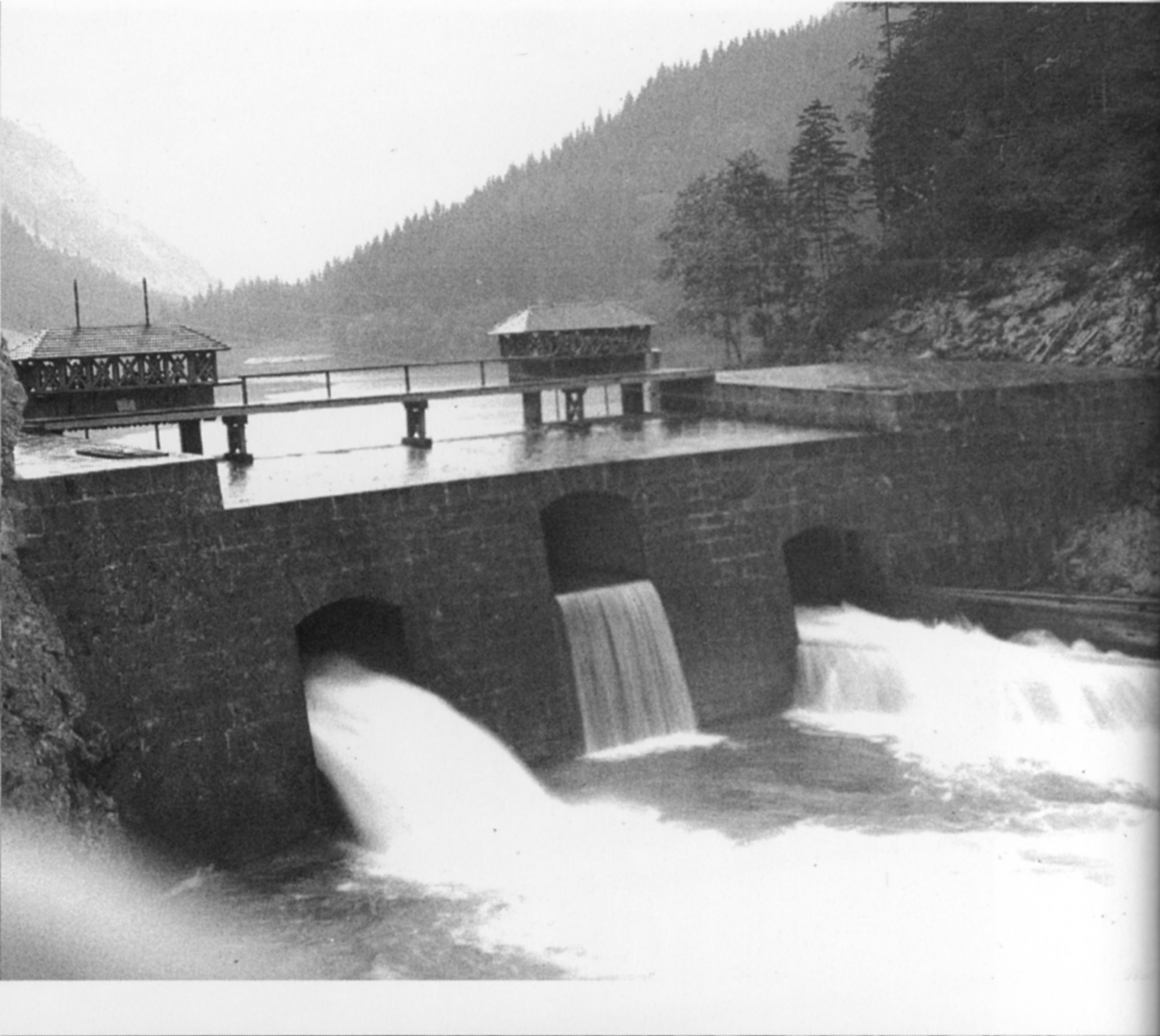 Petschar, Friedlmeier, Steiermark in alten Fotografien, Ueberreuther Verlag Wien. Scanprojekt Community Projektbudget 2012 This scan or this PDF-file was created within the GLAM-project Bookscanning, supported by Wikimedia Germany and Wikimedia Austria as a part of the community-project to capture books, documents and pictures which are not eligible to copyright or for which the copyright has expired. This document describes or depicts an object which is located in Austria today. Texts are written German language. Send requests for uncompressed scans to Hubertl. This work is in the public domain in its country of origin and other countries and areas where the copyright term is the author's life plus 100 years or fewer. You must also include a United States public domain tag to indicate why this work is in the public domain in the United States. This file has been identified as being free of known restrictions under copyright law, including all related and neighboring rights.